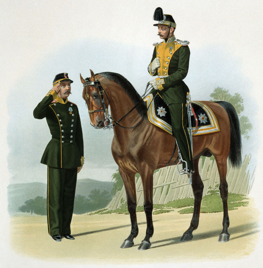 Uniform of Litovsky Guard Regiment.